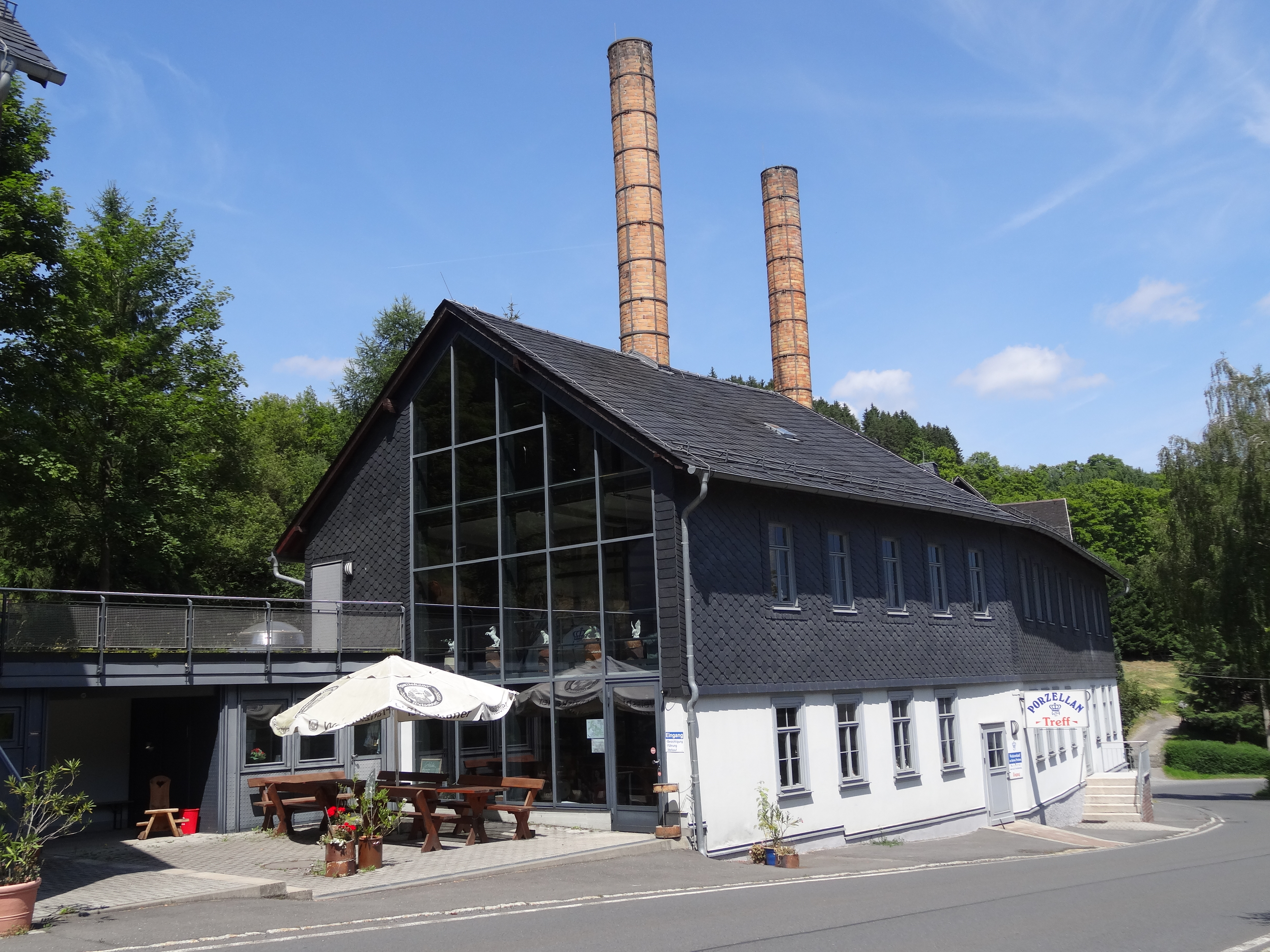 Historic china fabric in Lippelsdorf, Thuringia, Germany